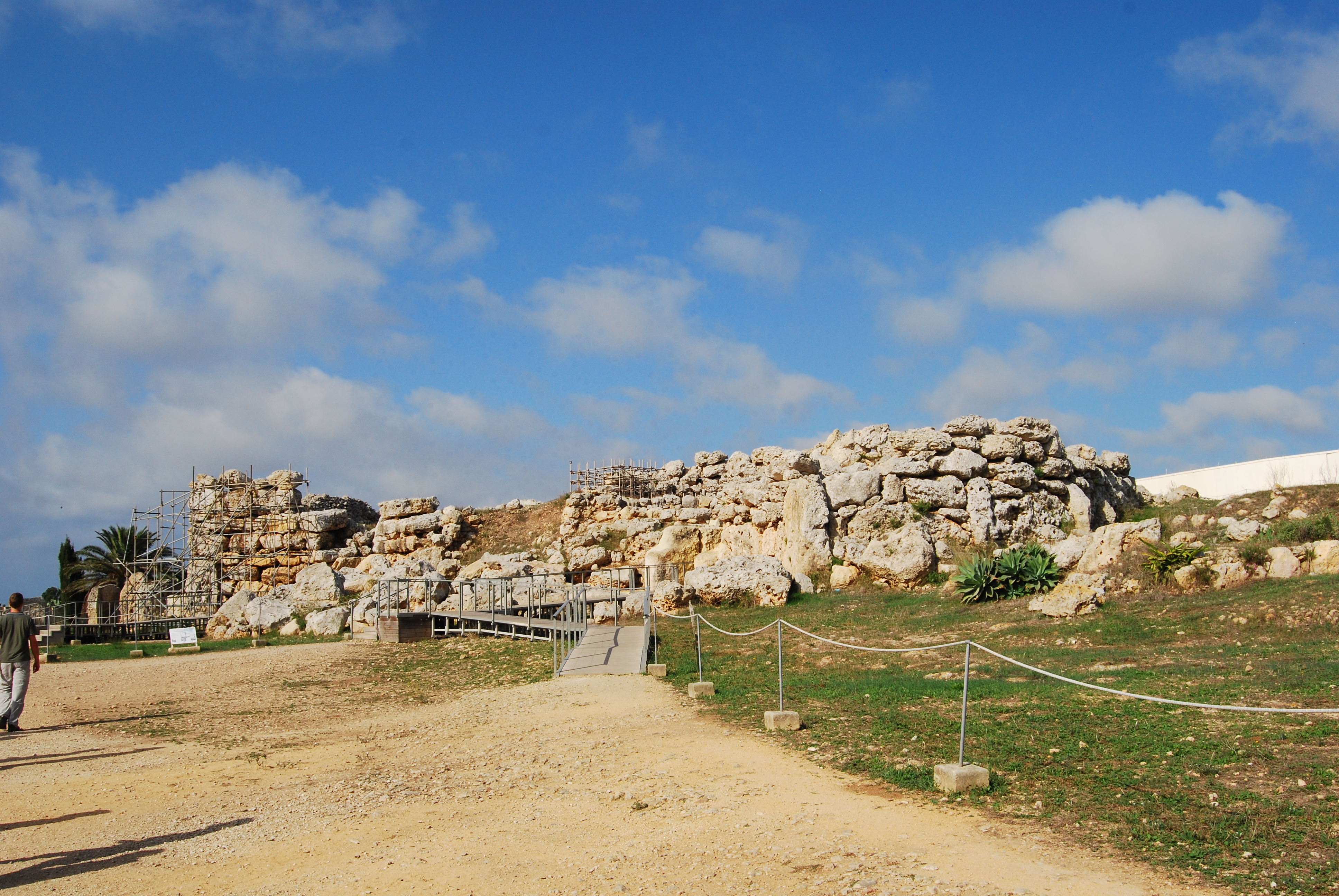 Megalithic temple Ġgantija at Gozo, Malta